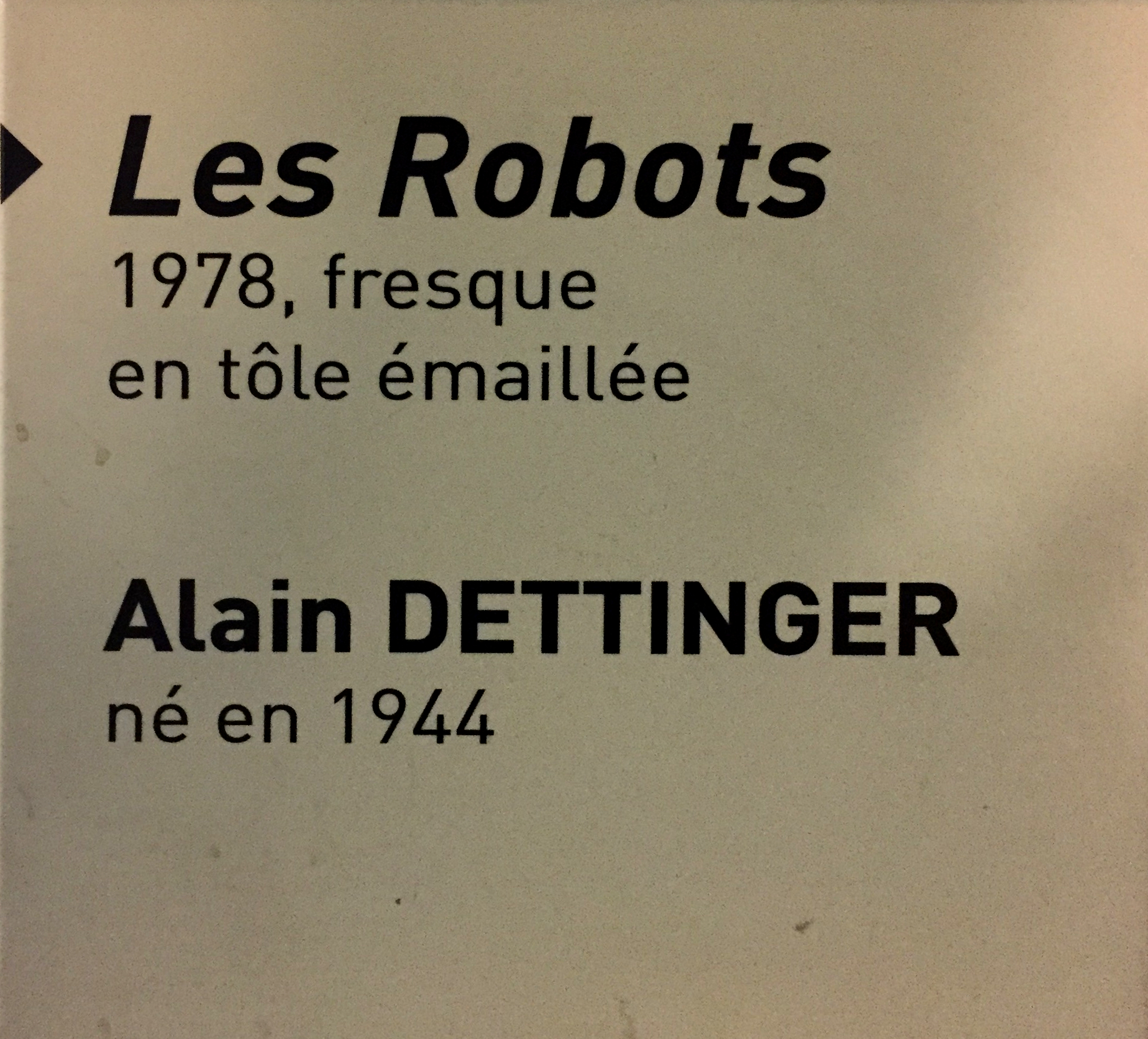 This photograph was taken with an iPhone 6